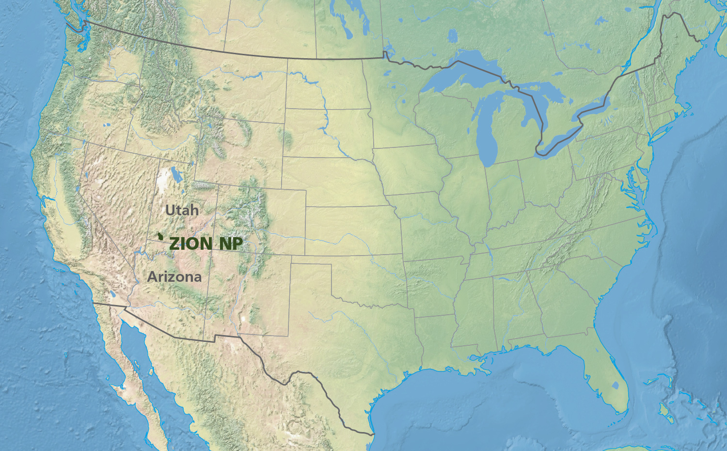 Lambert Azimuthal Equal Area projection (US National Atlas Equal Area). All data from .